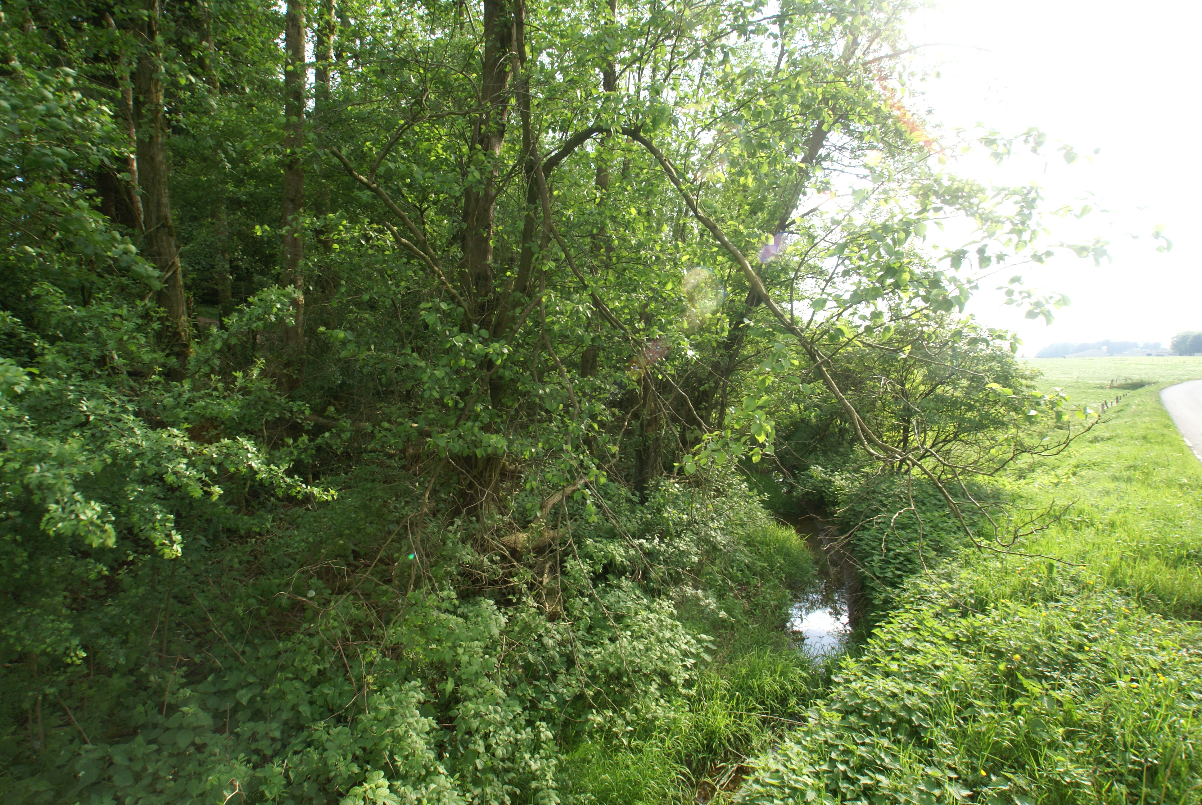 Ourt (Belgium): the river Ourthe close to its spring